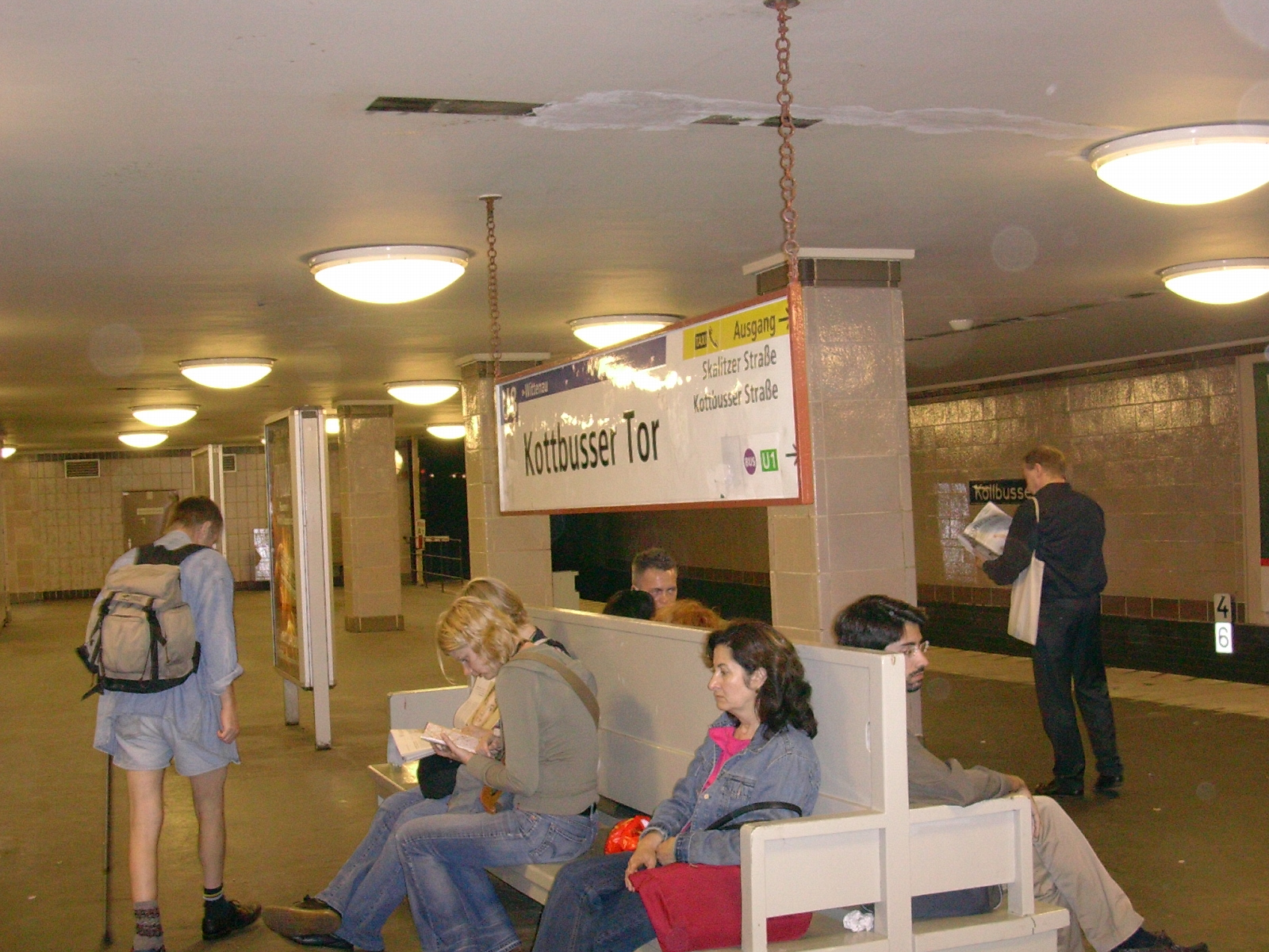 Kottbusser Tor underground station, line U8, Berlin, Germany